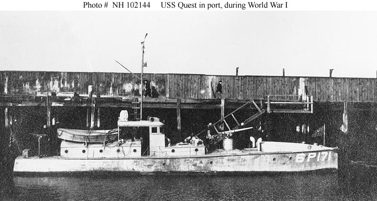 United States Navy aptrol vessel USS Quest (SP-171)